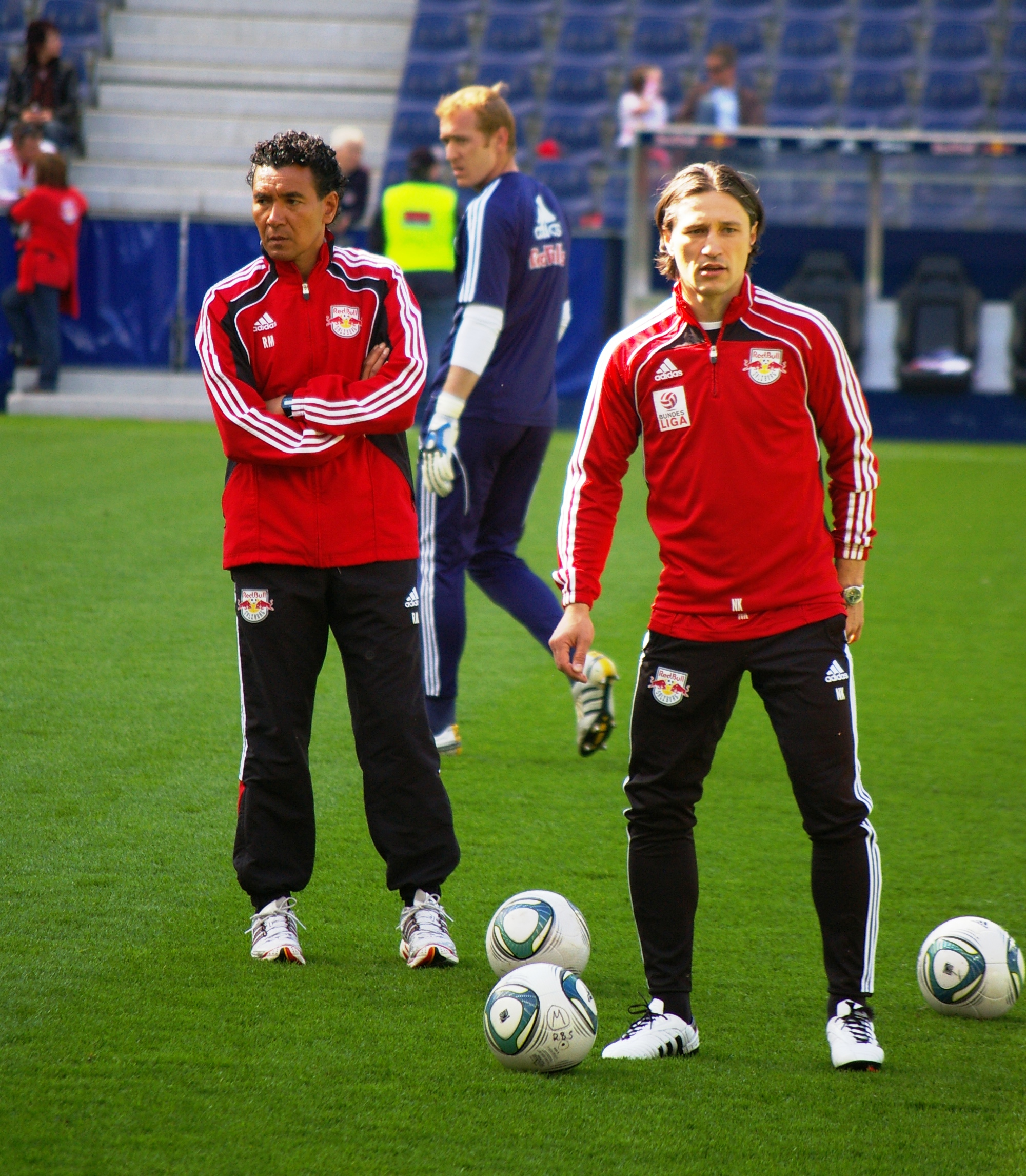 coaches of FC Red Bull Salzburg